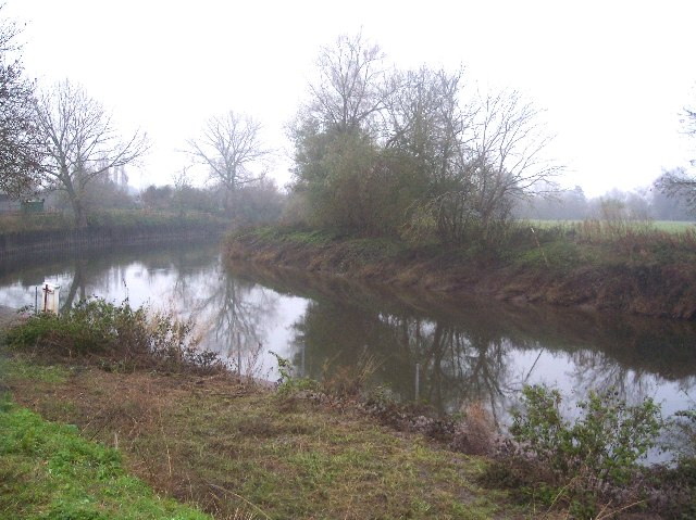 The River Severn at the White Horse. Walham. Looking downstream towards Gloucester, Bristol and the sea from the grounds of the once riverside pub, but now a Chinese restaurant.